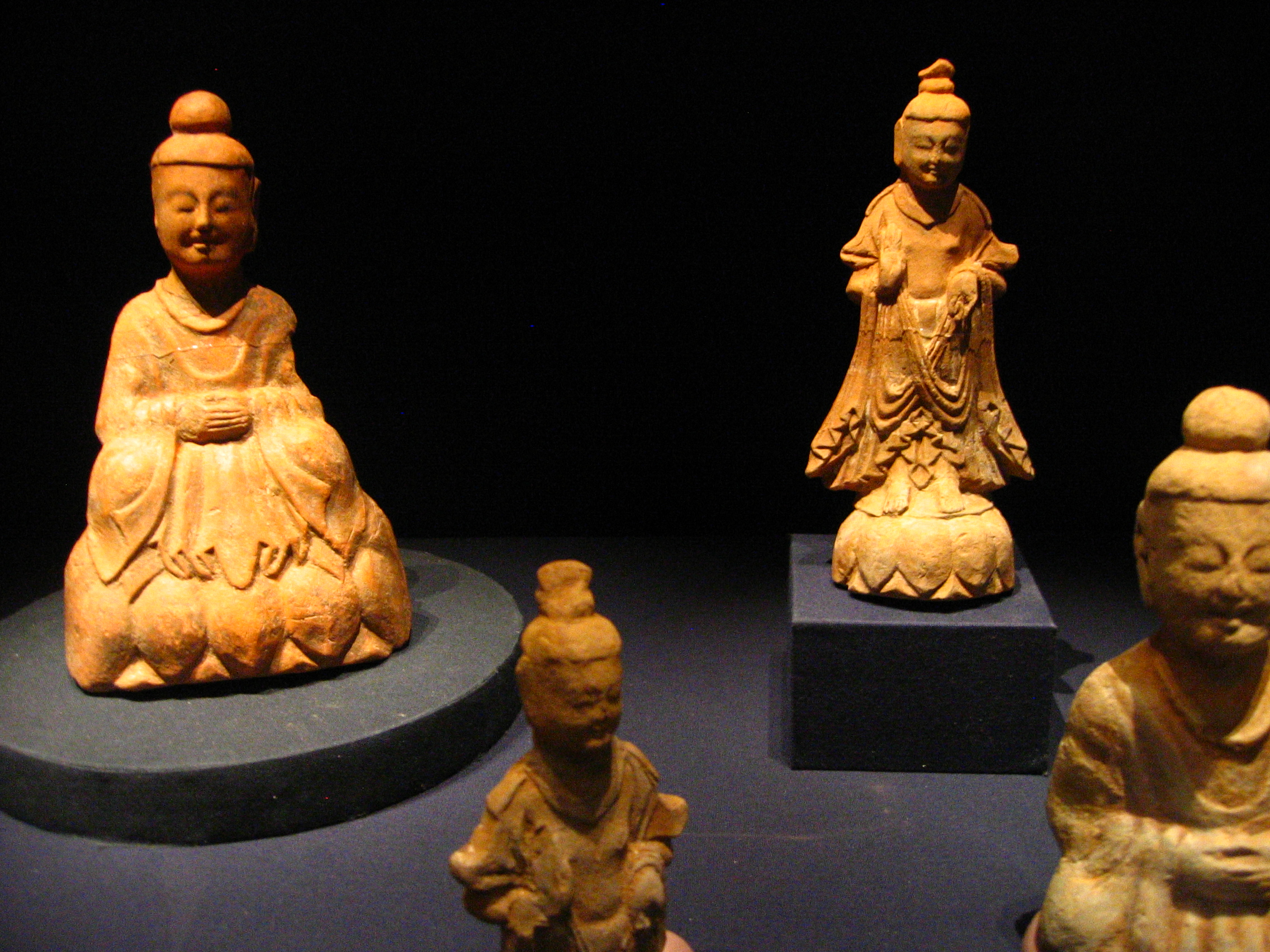 Clay seated Buddhas and standing bodhisattvas from the Wono-ri site. These images were mass produced in Koguryo and were once painted in bright colors. Sixth Century.